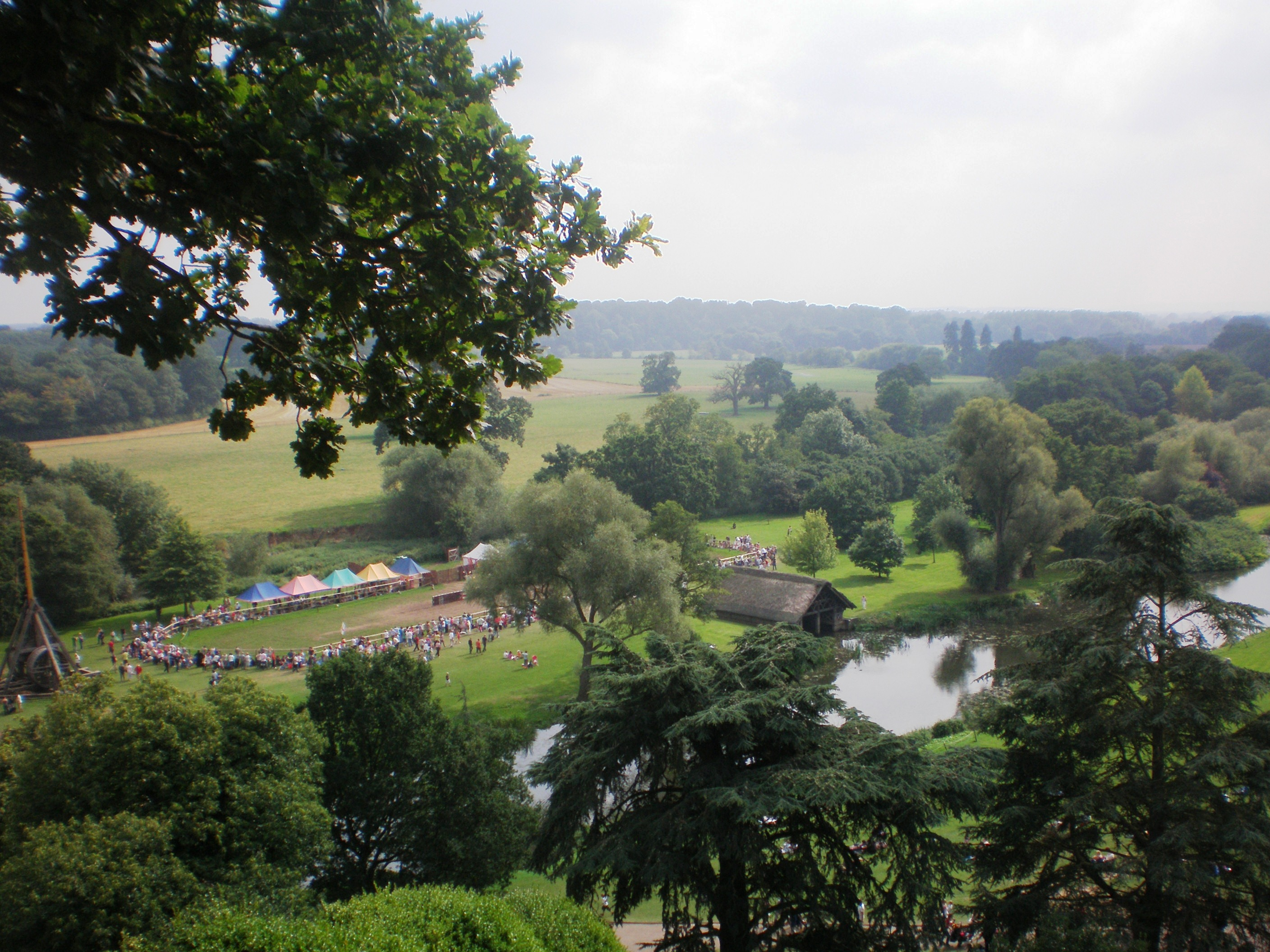 View from Warwick Castle.